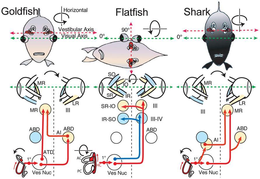 Schematic diagram of horizontal vestibulo-ocular reflex circuitry in teleosts and elasmobranchs. "Goldfish" shows the principal three-neuronal vestibulo-ocular reflex linking the horizontal semicircular canal with contralateral abducens (ABD) and ipsilateral MR motoneurons. "Flatfish" shows that after 90º displacement of the vestibular relative to visual axis (metamorphosis) compensatory eye movements are produced by redirecting horizontal canal signals to vertical and oblique (SR-IO and IR-SO) motoneurons. In "Shark" horizontal canal/second order neurons project to contralateral ABD and MR motoneurons including ipsilateral AI neurons. 1∘, first order vestibular neuron; ATD, Ascending Tract of Deiter’s. Schematic diagrams based on results from Graf et al. (1997; goldfish), Graf and Baker (1985a,b; flatfish), and Graf et al. (2001; shark).